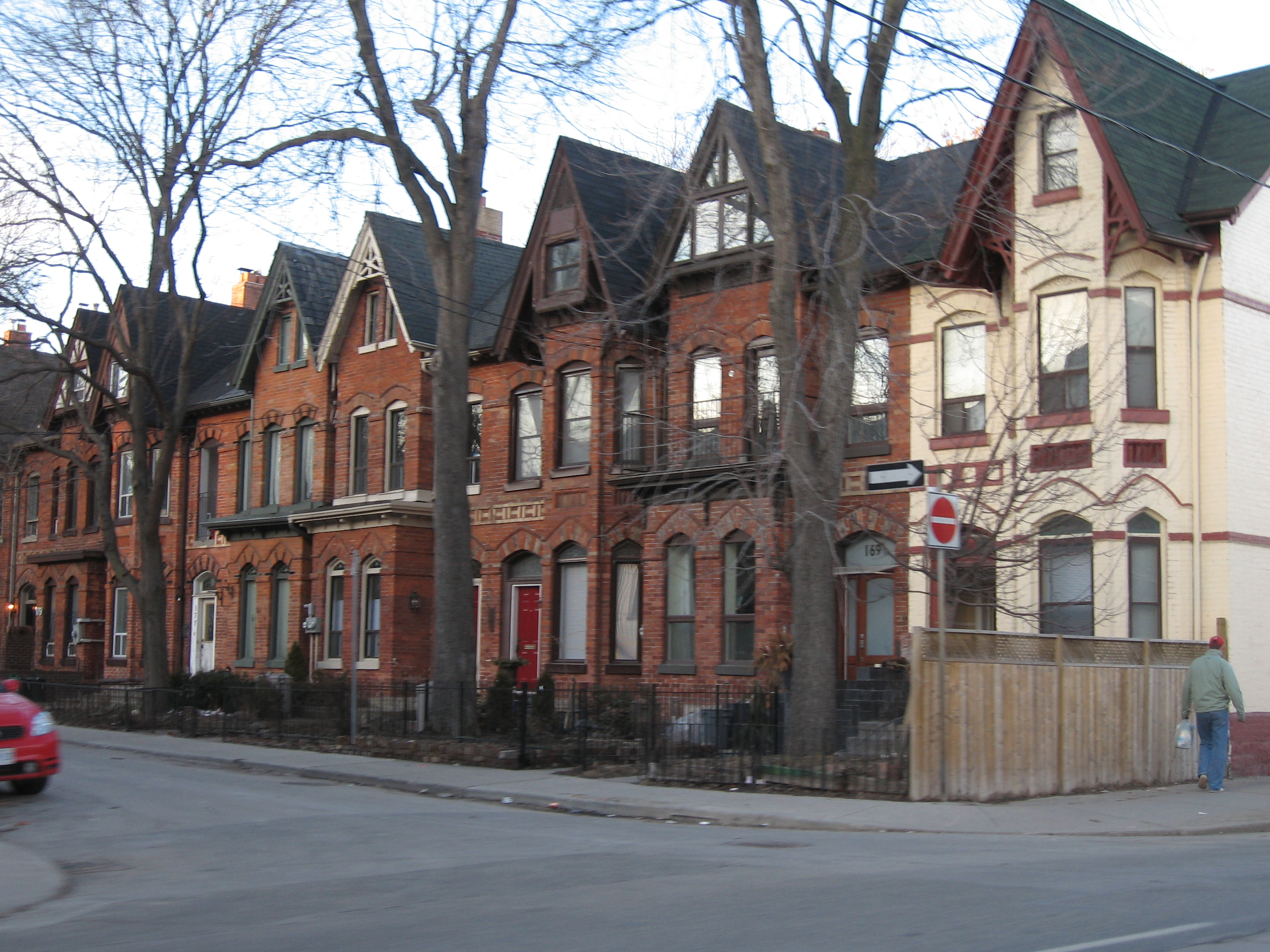 A row of houses in Toronto; took the picture myself while riding in the car. Also good for any urban residential article. If you use this picture outside of Wikipedia, please credit it to Bardia Khajenoori.